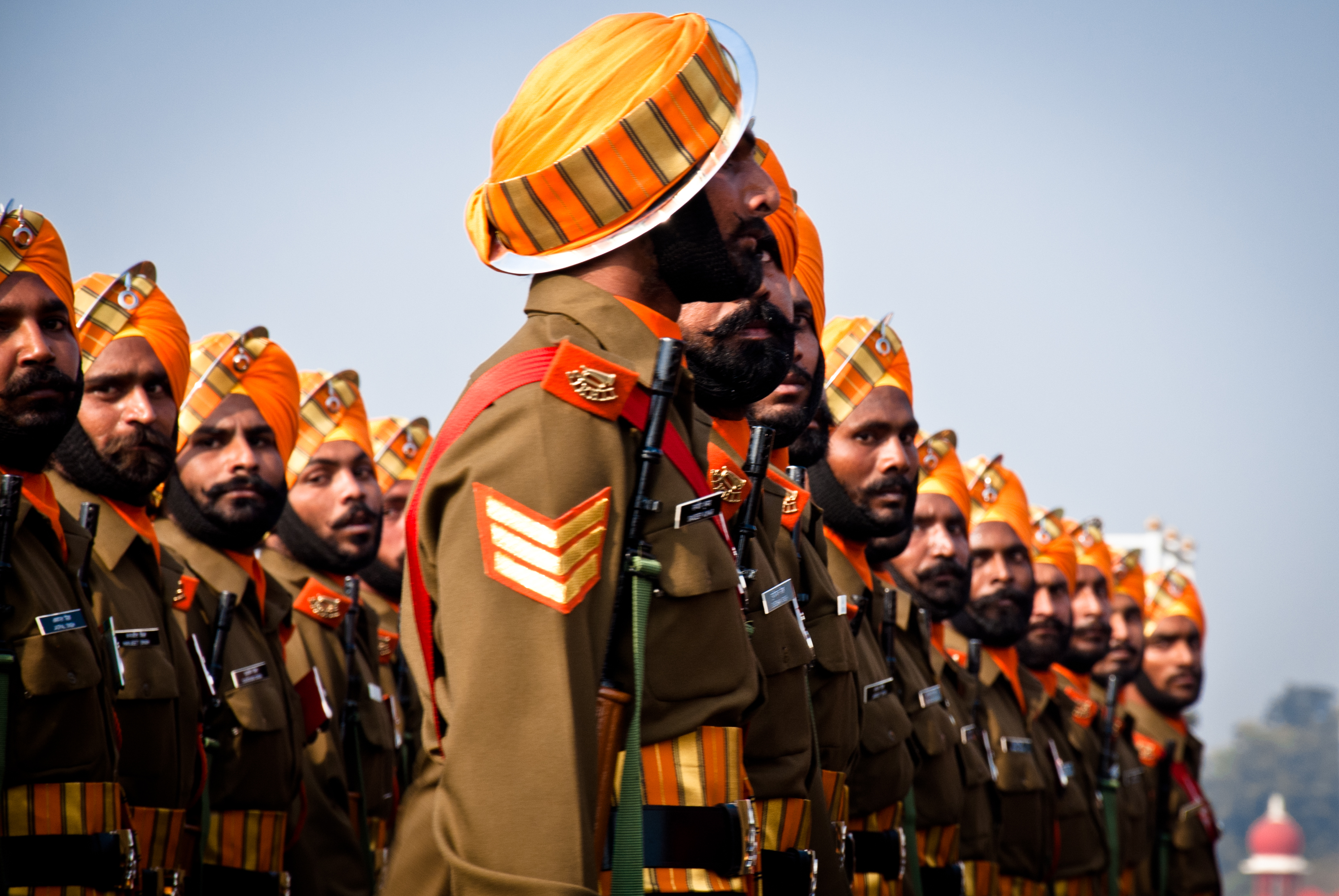 Troops of the Indian Army's Sikh Light Infantry